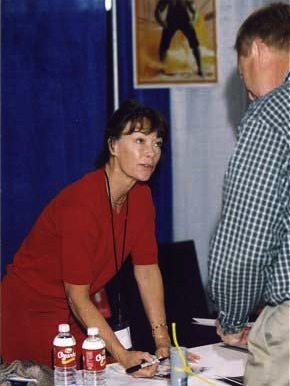 Fan autograph signing.